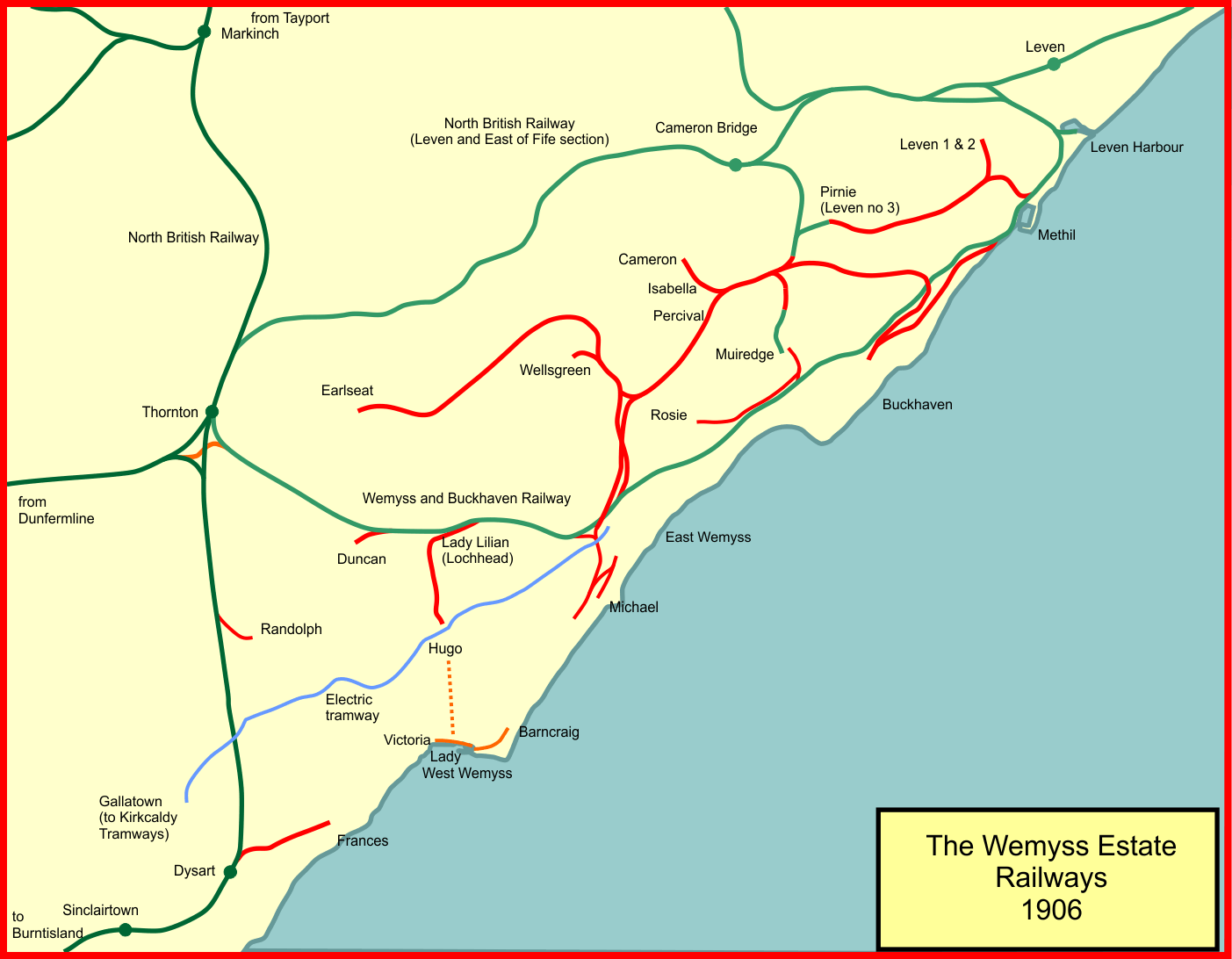 System map of the Wemyss Estate Railways in Fife, Scotland in 1906